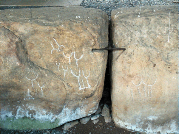 own photo (2000)